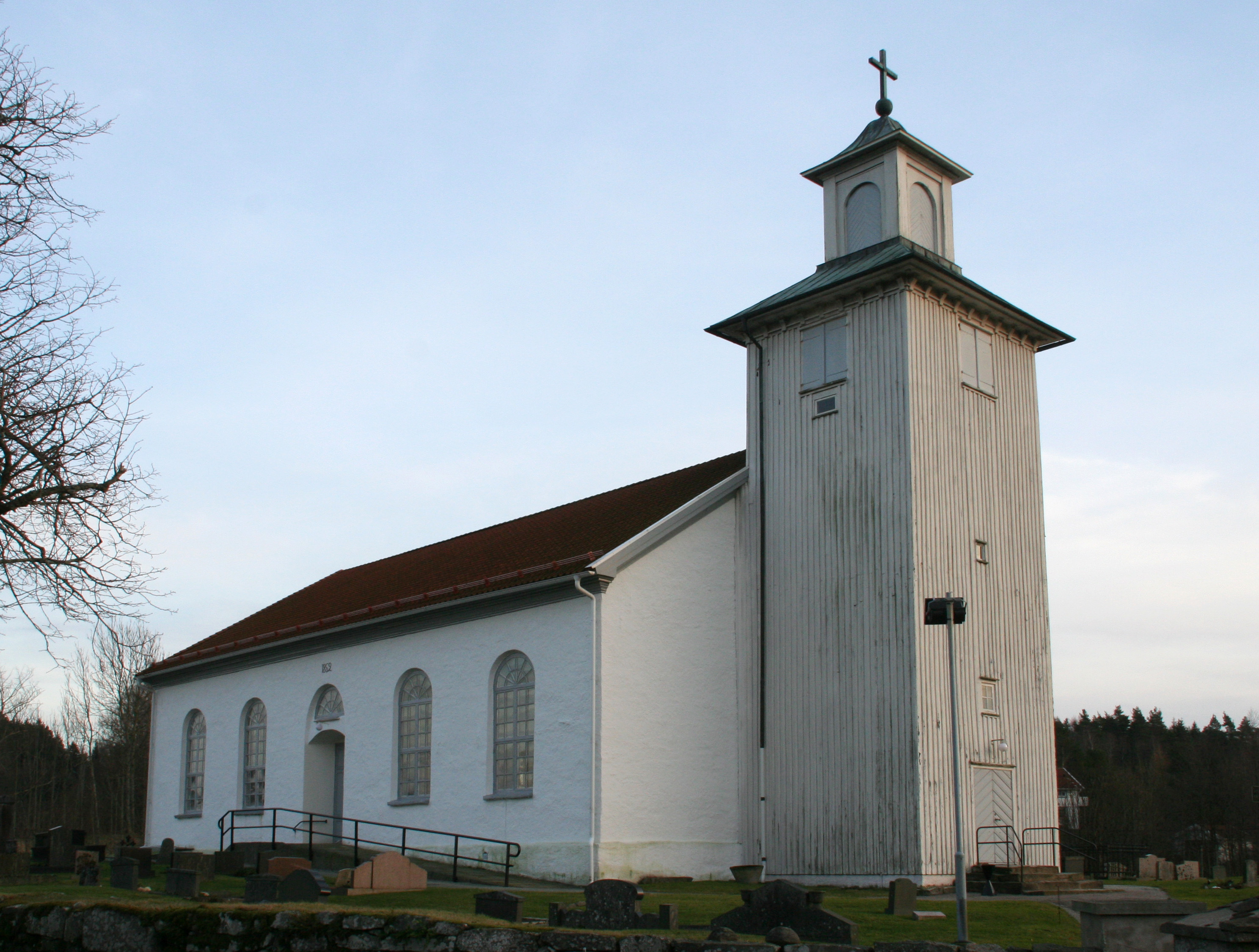 Långelanda Church